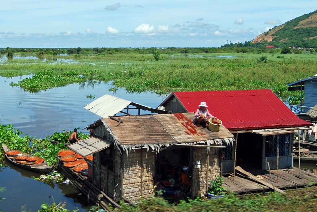 Tonle Sap